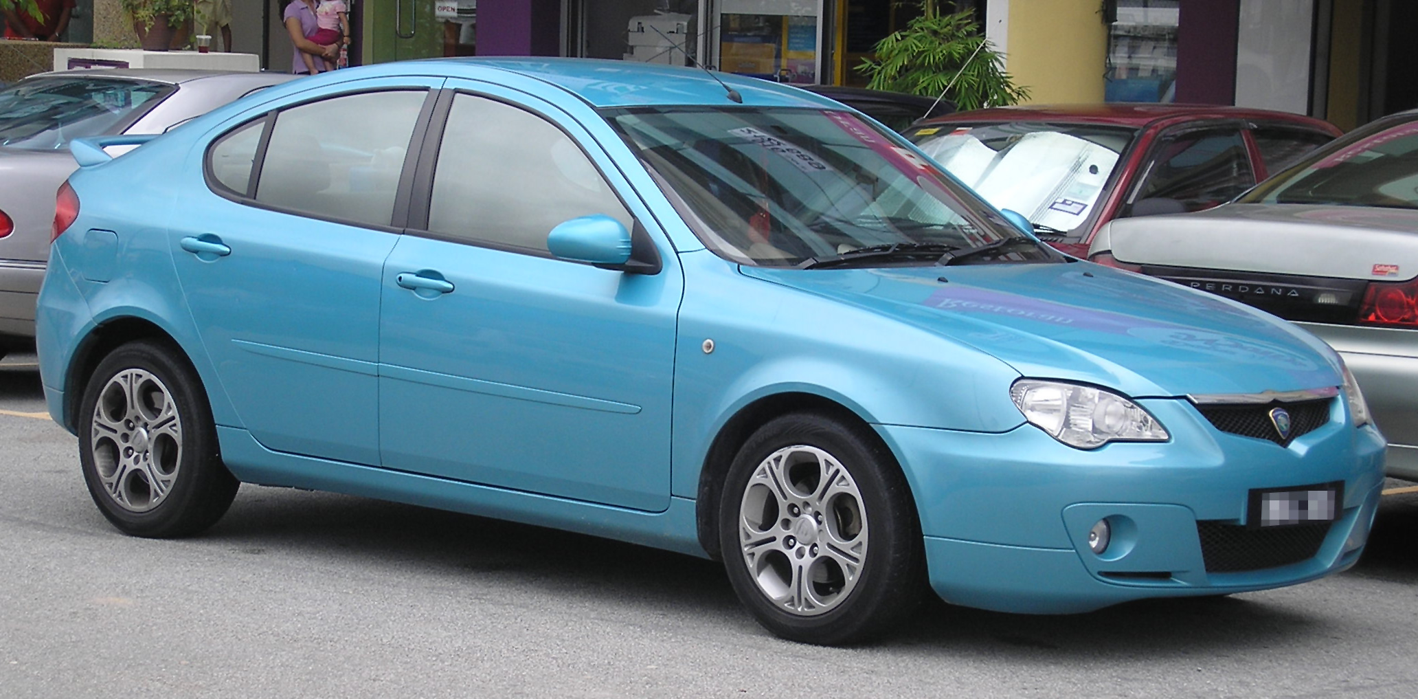 Front-side shot of a Proton Gen.2, in Serdang, Selangor, Malaysia.